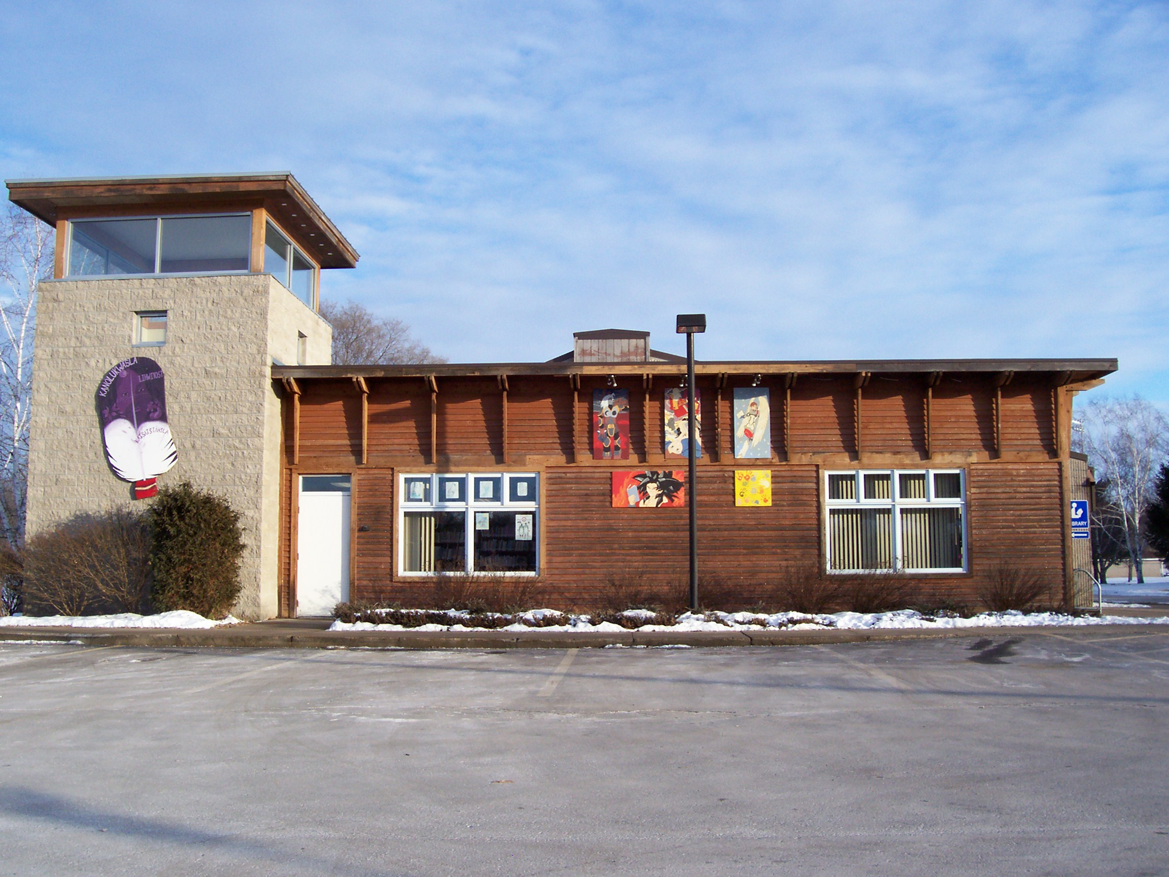 The Oneida Community library in Oneida, Wisconsin, USA. Taken February 11, 2007 by myself.